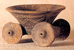 Otoman culture, Nizna Mysla, Slovakia 1700-1400 BC